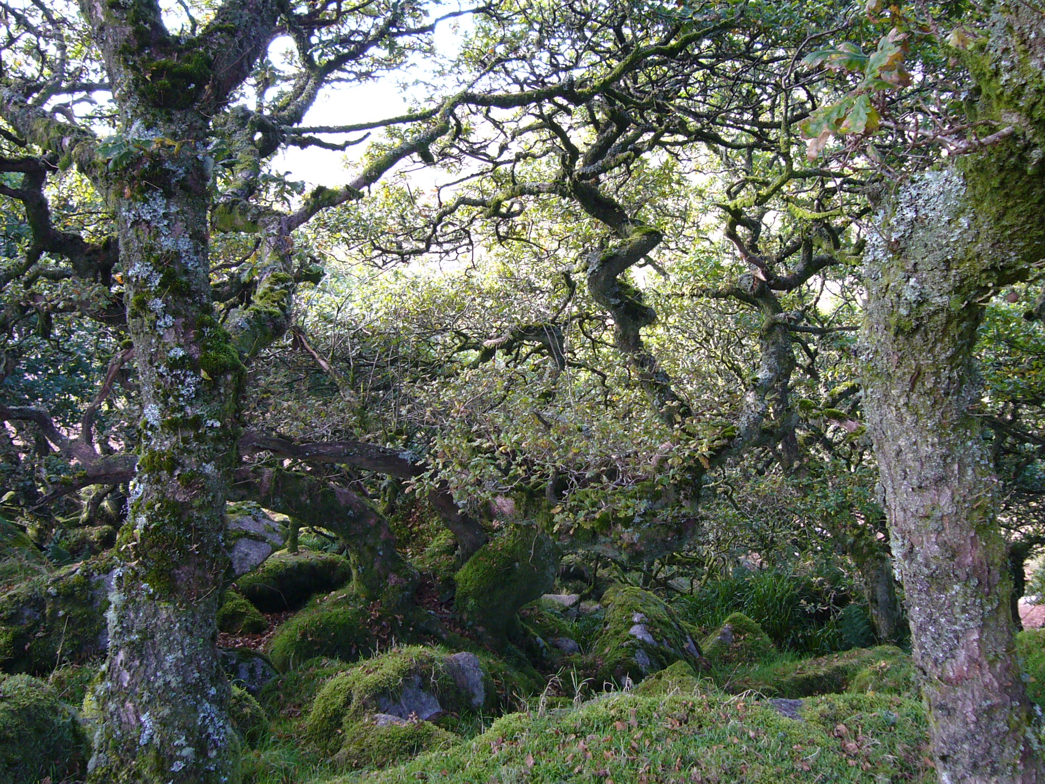 Wistman's Wood on northern Dartmoor. The wood consists mainly of stunted pedunculate oak trees.